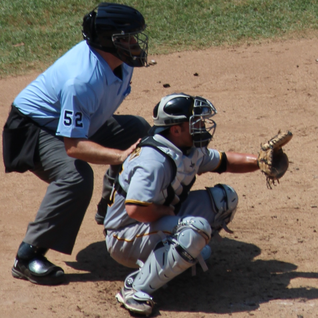 Michael McKenry catching and Bill Welke umpiring